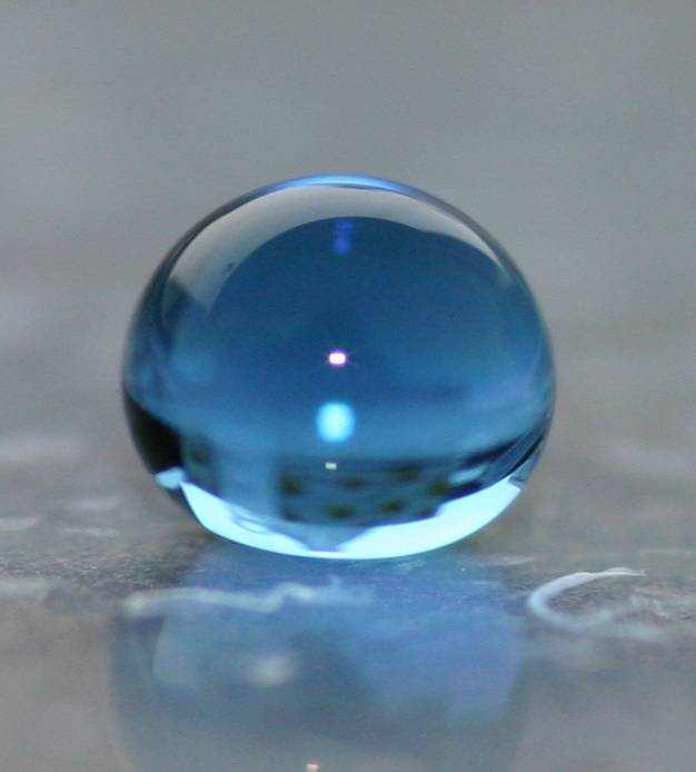 Superhydrophobic properties of a silicon nanofilament-coated surface